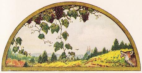 An illustration from Fables in Rhyme for Little Folks, New York, 1918